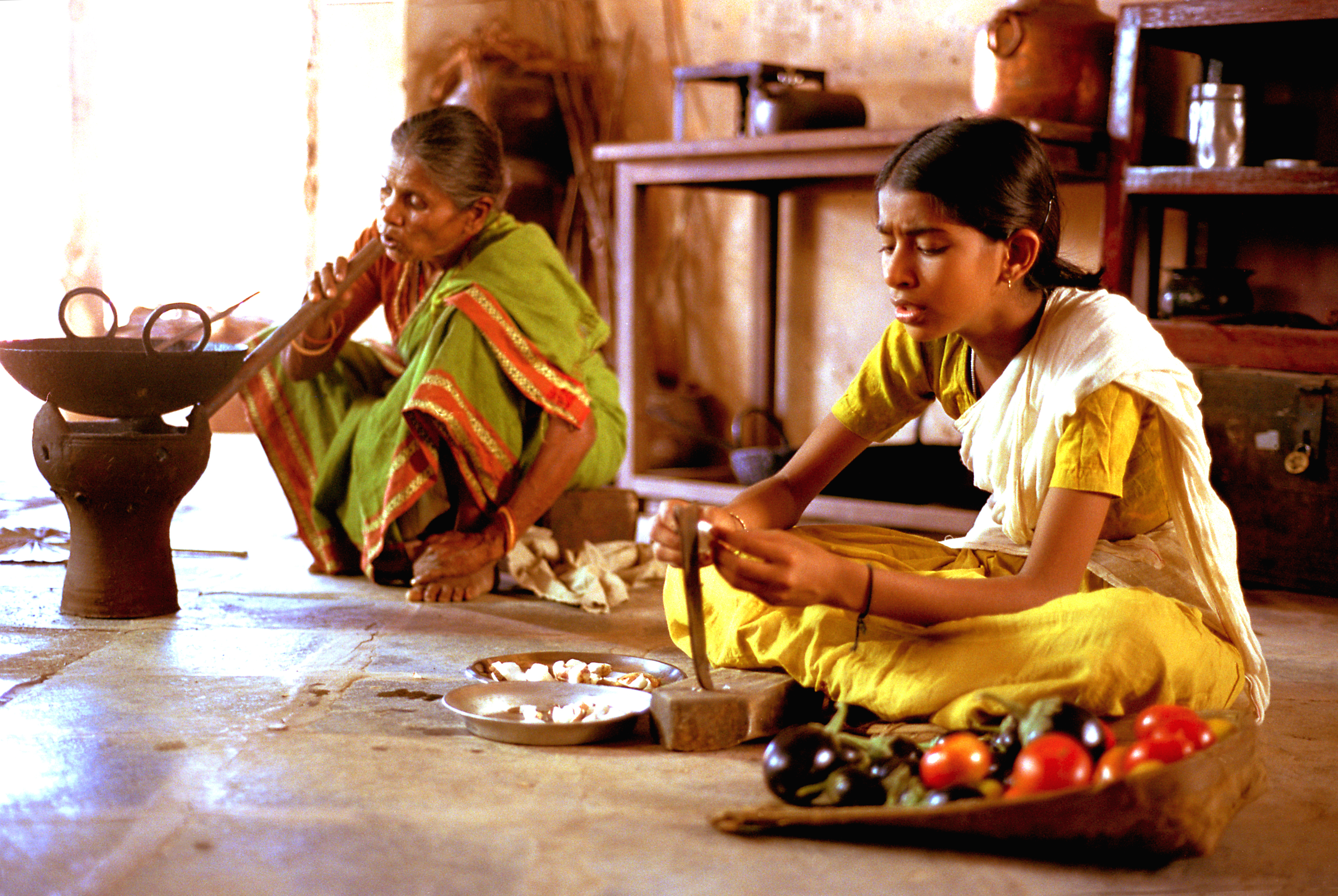 Vanaja, played by Mamatha Bhukya in the 2006 Telugu language feature film, is a servant in the house of a rich landlady. Here, she is seen slicing a coconut, while the cook, Radhamma (played by Krishnamma Gundimalla) stokes a coal fire.The film, Vanaja, was written, directed and edited by Rajnesh Domalpalli for his MFA Thesis at Columbia University.